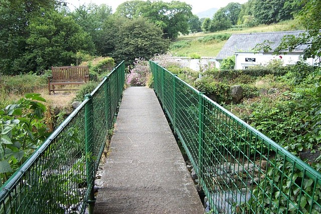 Footbridge across Afon Roe in Rowen. This footbridge spans the Afon Roe in Rowen at SH 75937 71942.